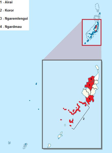 A location map of Palau with the states that entered the footballing tournament at the 2011 Belau games.